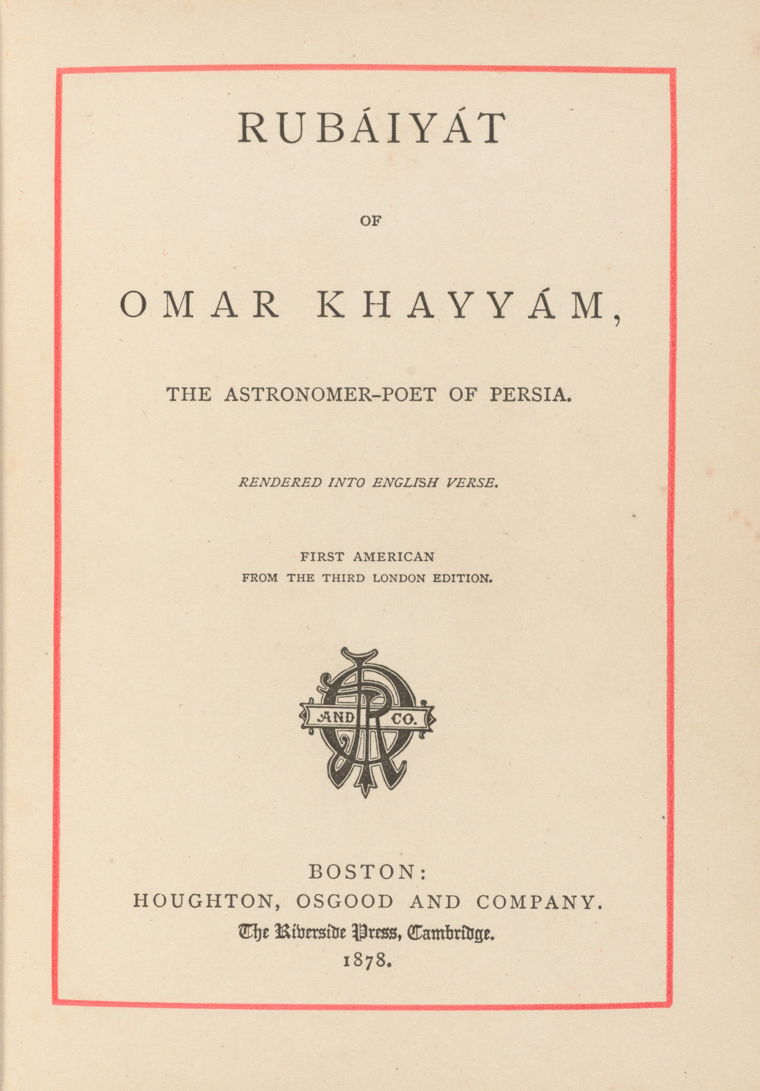 Title page: The Rubáiyát of Omar Khayyám, the astronomer-poet of Persia. First American edition: Boston, Houghton, Osgood and Company, 1878. From the third edition of the English translation by Edward FitzGerald. *AC85 M4977 Zz878o, Houghton Library, Harvard University